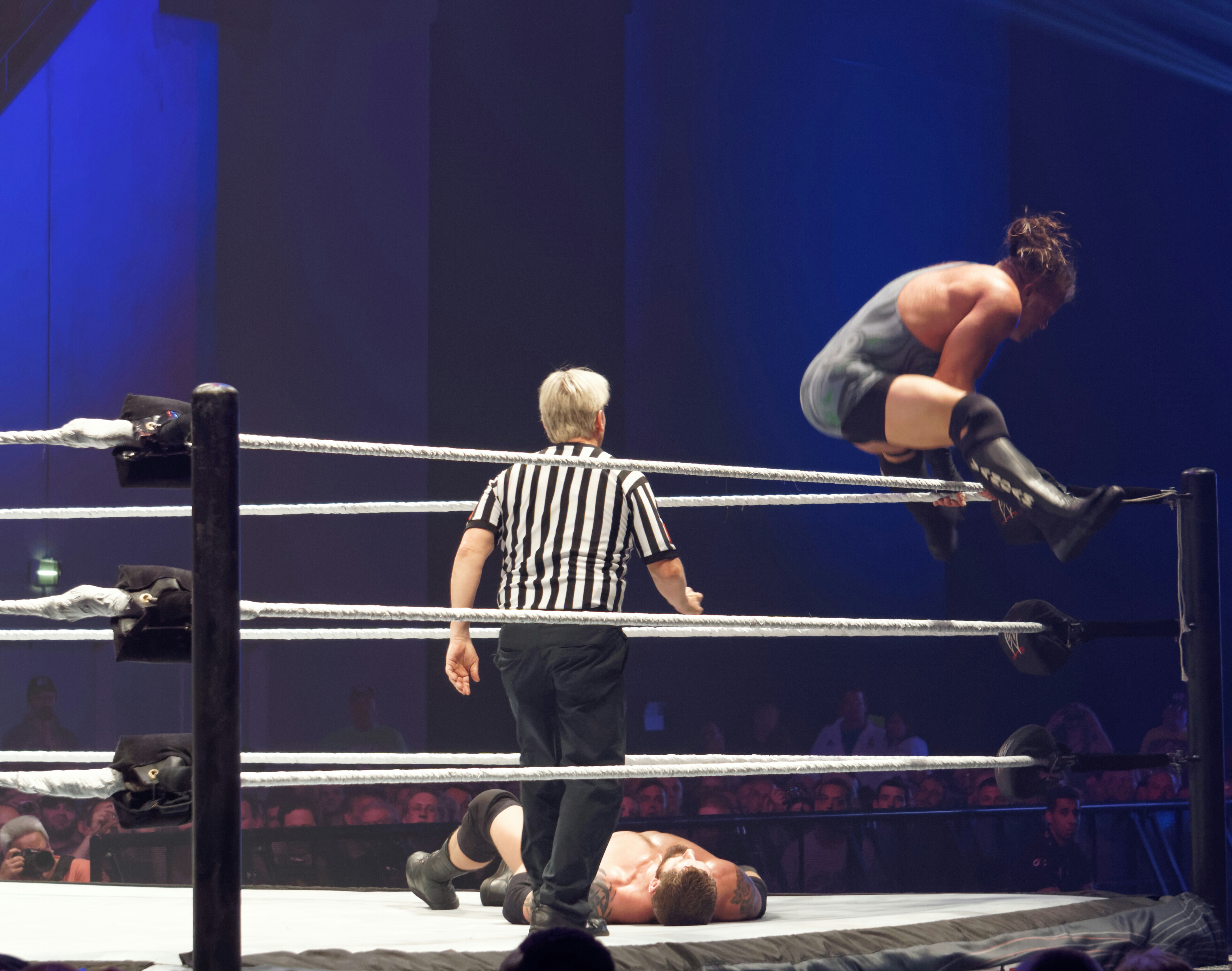 RVD performing split-legged moonsault on Bad news Barrett